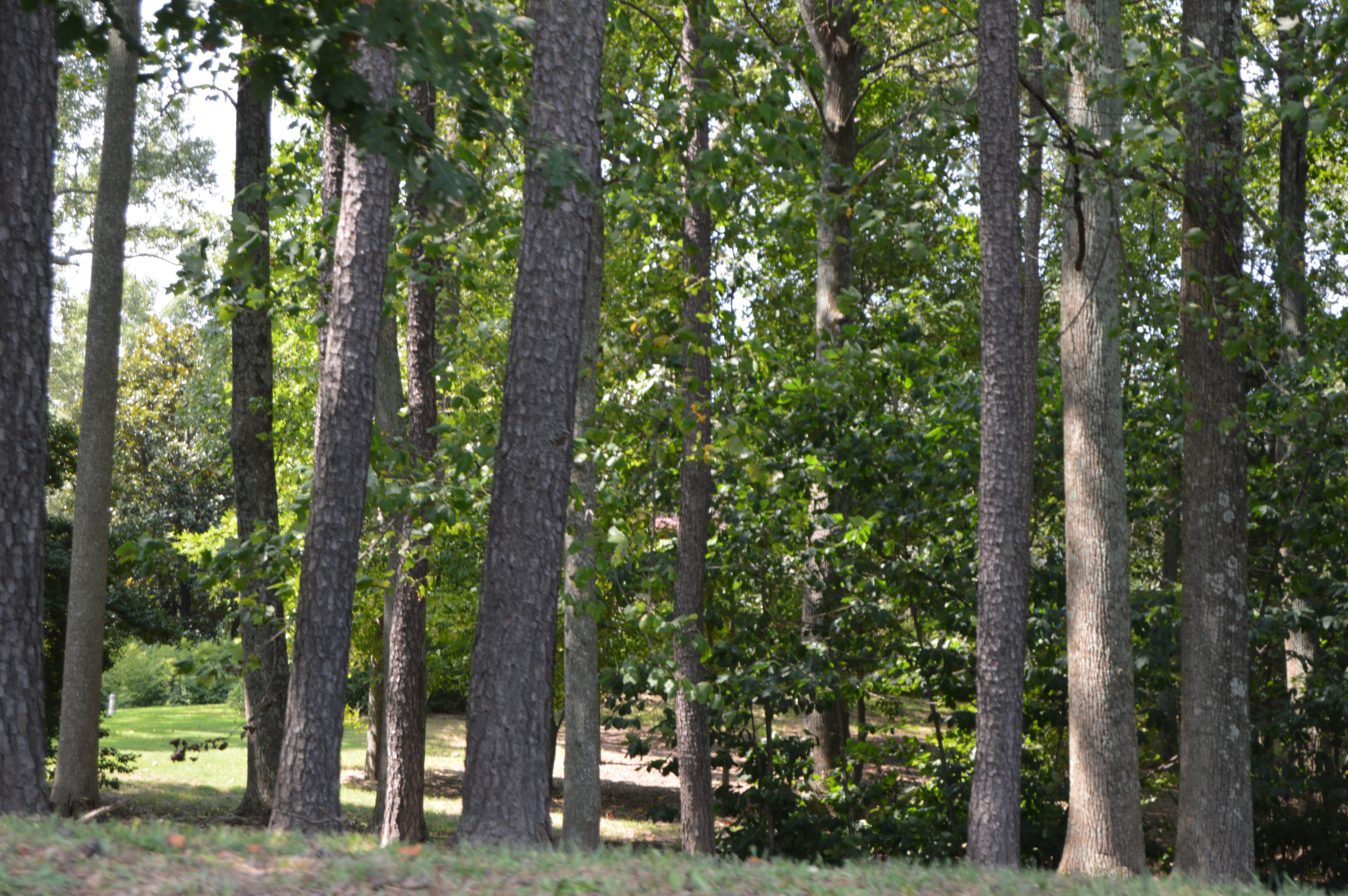 Woodland at the Mount Pleasant estate, seen looking west from Coles Point Road just northeast of Hague in Westmoreland County, Virginia, United States. Tree cover makes the house virtually invisible from the road. The estate is listed on the National Register of Historic Places.